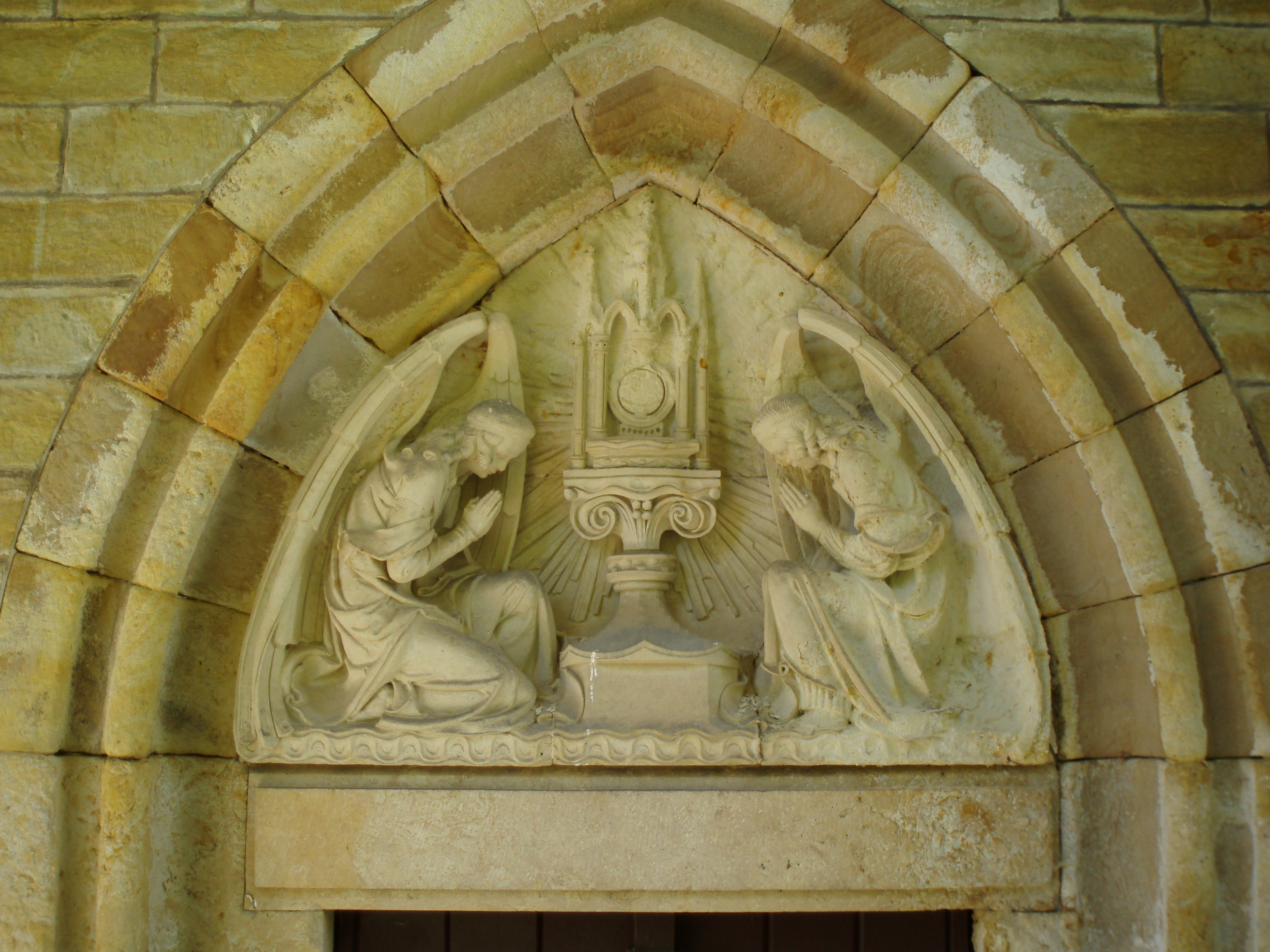 Cemetery Chapel in Chvalkovice (District of Náchod, Czech Republic)